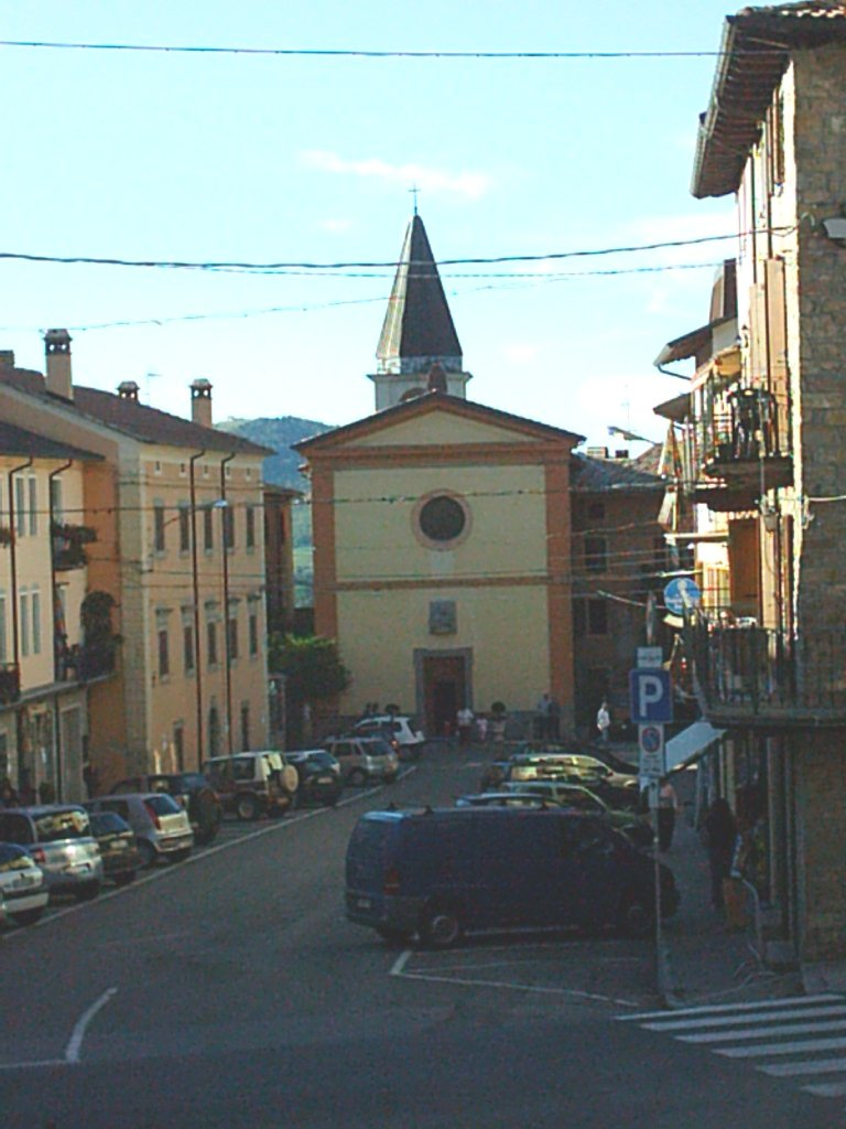 Lama Mocogno (province of Modena, Italy) - Chiesa Beata Vergine del Carmine e di Sant'Antonio